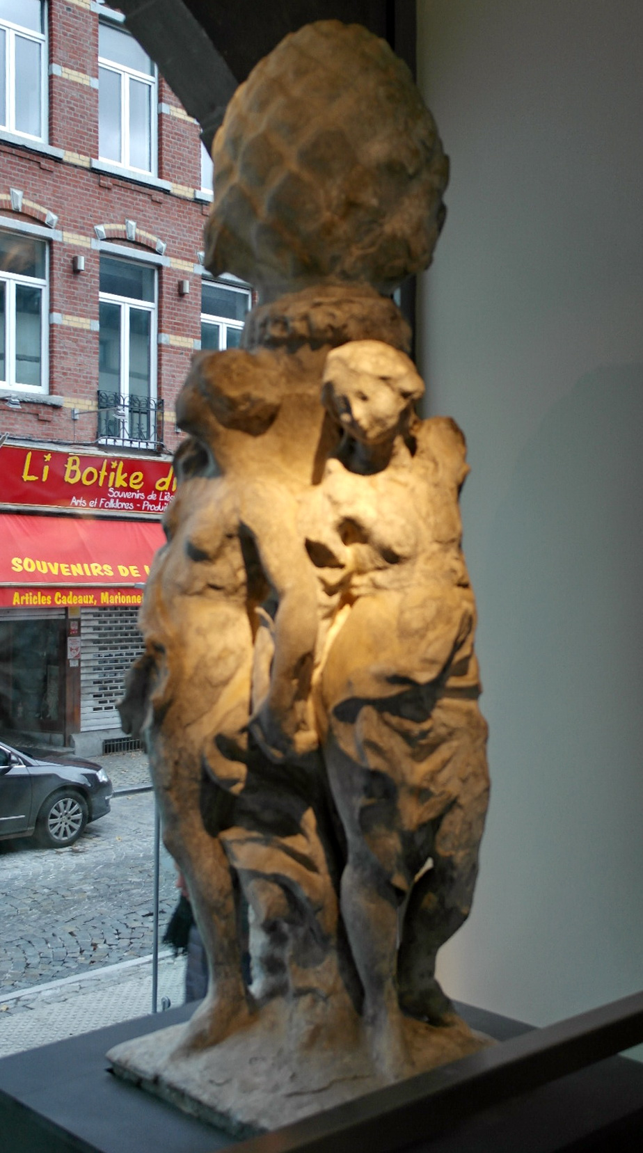 Marble statues of the three graces by Jean Del Cour (1697-'99), formerly part of the Perron fountain in Liège. Museum Grand Curtius, Liège, Belgium.